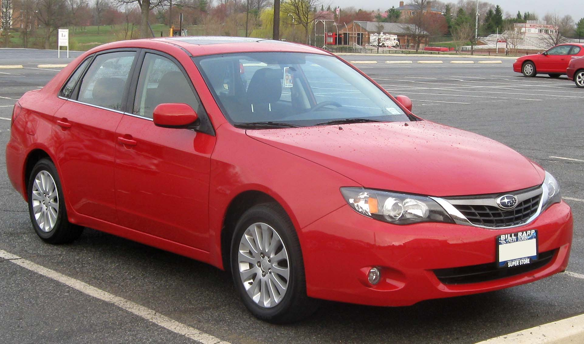 2007-2009 Subaru Impreza 2.5i photographed in College Park, Maryland, USA.